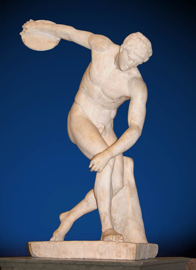 Discóbolo Townley